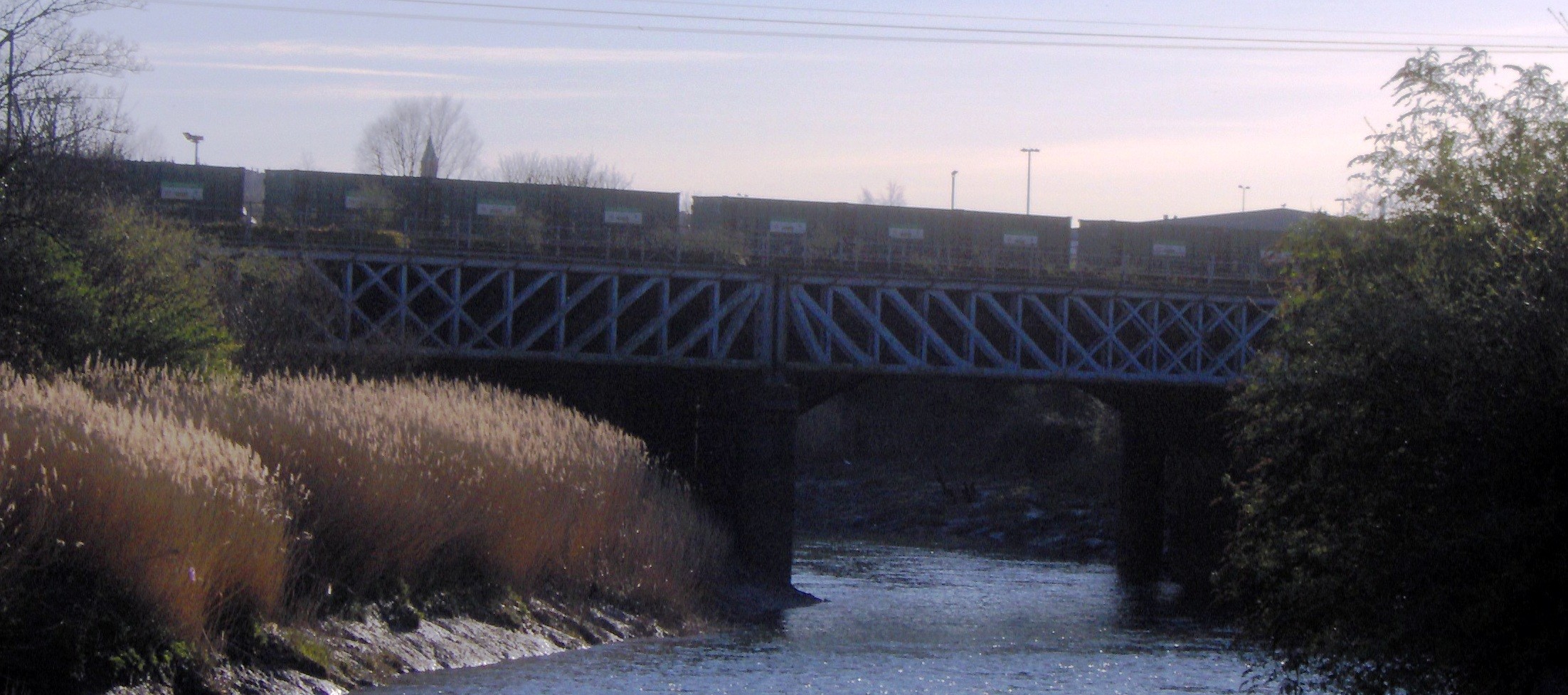 Brunel's railway bridge over the river Avon "New Cut" in Bristol. Taken by Rod Ward 21st March 2007